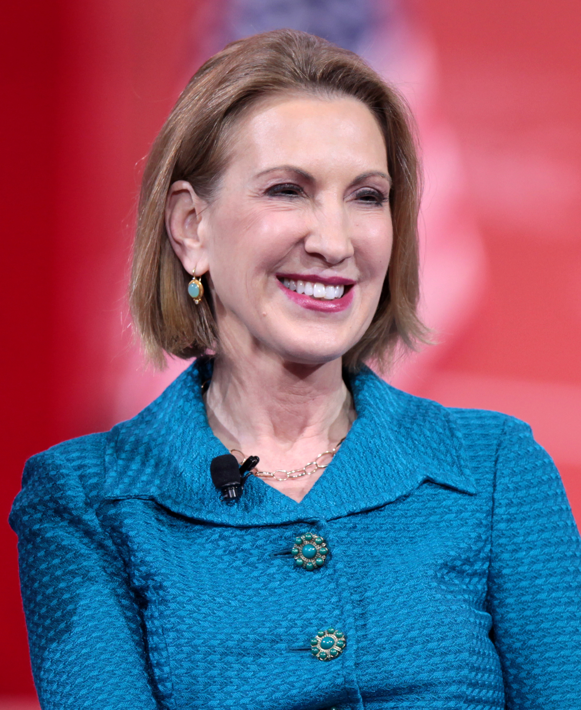 Carly Fiorina speaking at CPAC 2015 in Washington, DC.